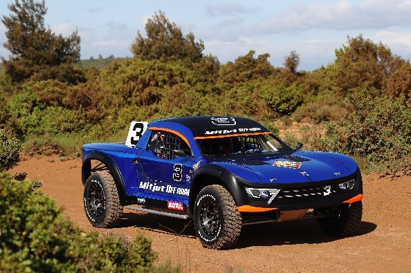 Mitjet offroad